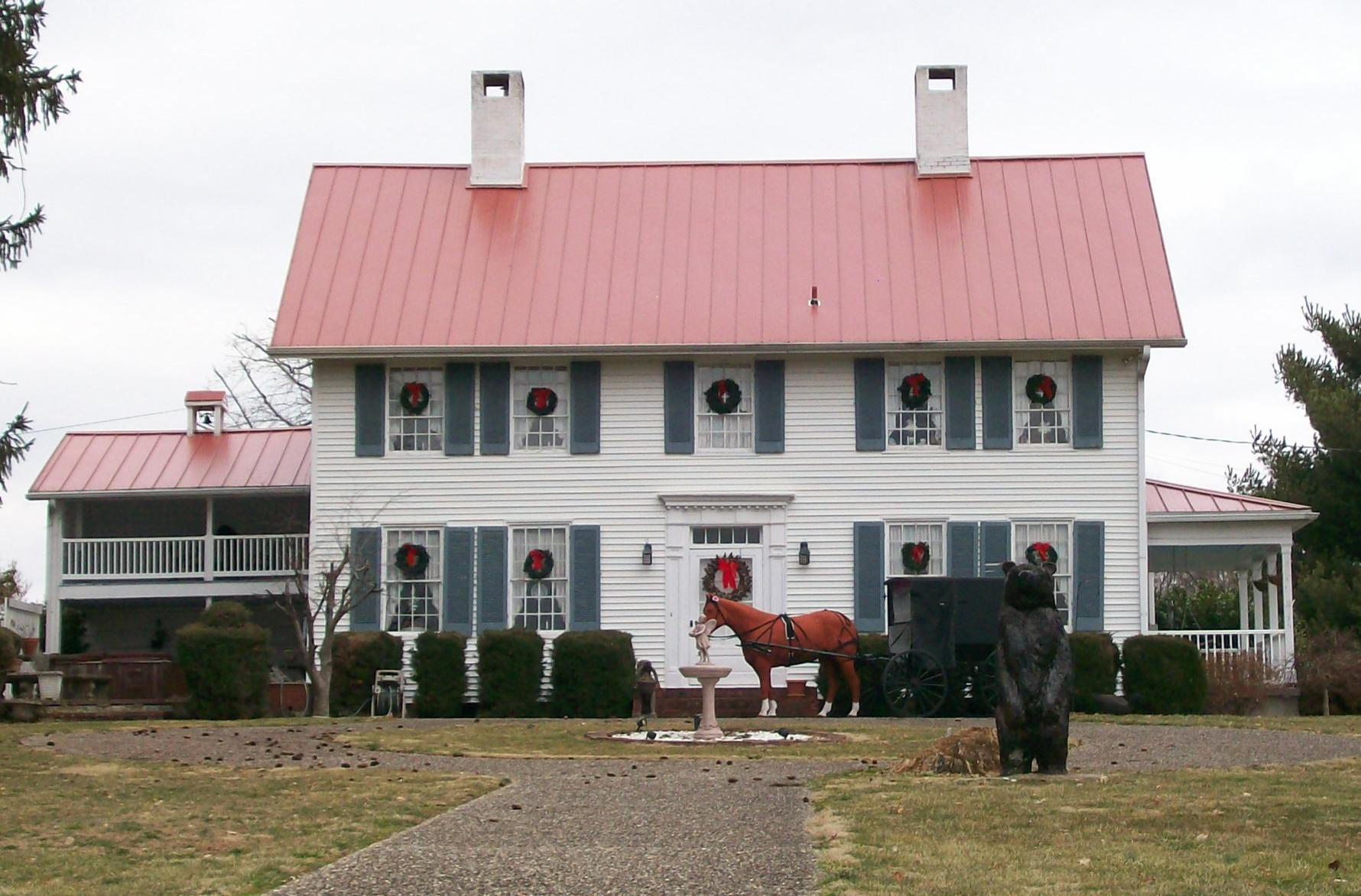 The Capt Jonathan Stone House in Belpre, Ohio. The home is photographed showing its southern facade. This side faces Blennerhassett Avenue and the Ohio River beyond. The house is listed on the NRHP for Washington County.